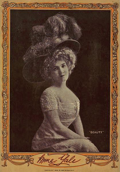 Maude Mayberg aka Madame Yale in 1909